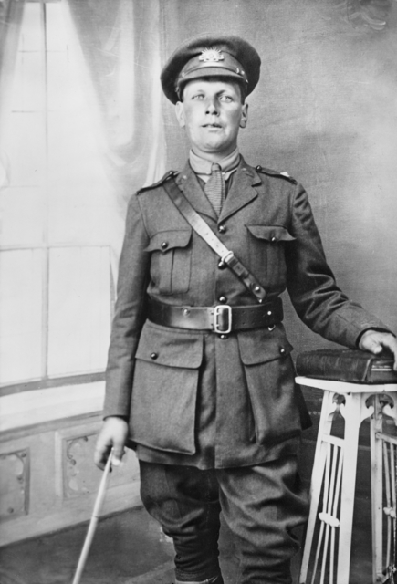 Studio portrait of 2nd Lieutenant (2nd Lt) Alfred Edward Gaby, 28th Battalion AIF. Lt Gaby was posthumously awarded the Victoria Cross (VC) for 'most conspicuous bravery and dash in attack' on 8 August 1918 at Villers Bretonneux.